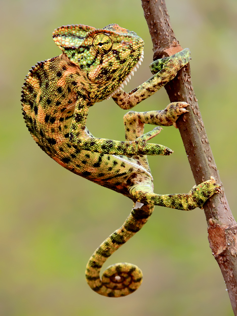 Indian Chameleon in Mangaon, Raigad, Maharashtra